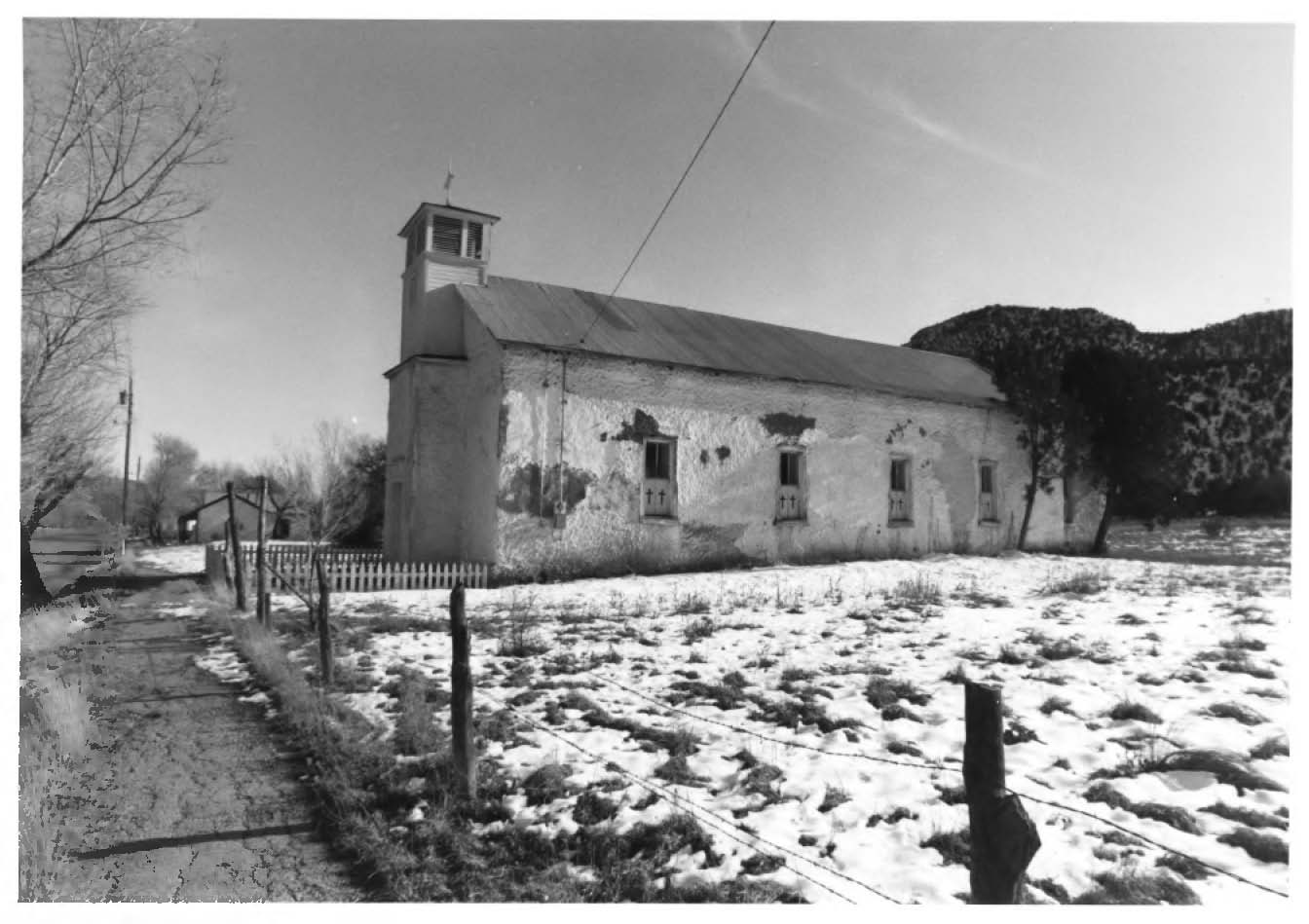 Iglesia de San Juan Bautista, U.S. Highway 380, Lincoln (Lincoln County, New Mexico)